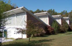 Picture of the Solar School Building of The Farm School on The Farm Community in Tennessee